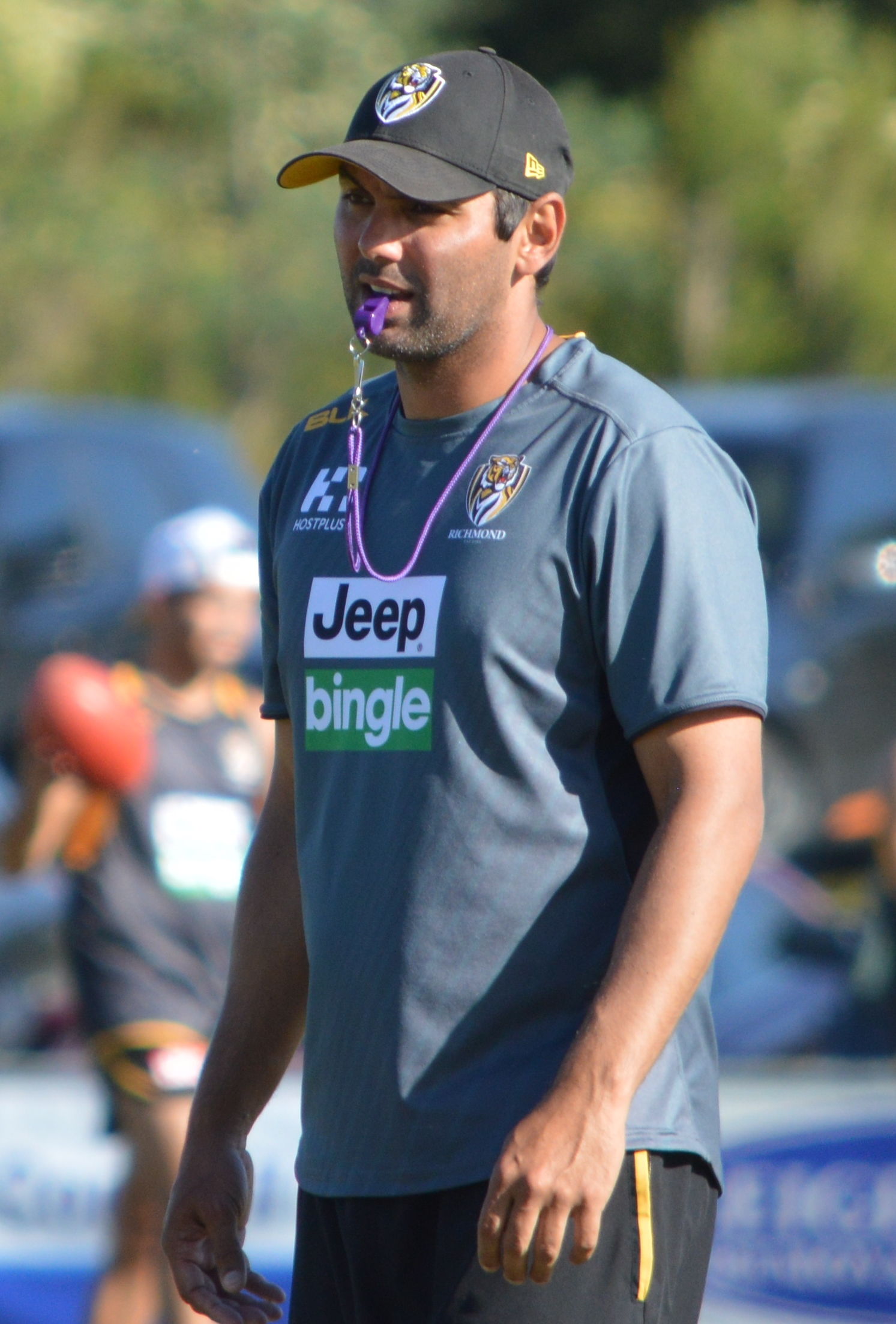 Xavier Clarke at the Richmond Football Club family day in Beaconsfield Victoria on 20 December 2016.